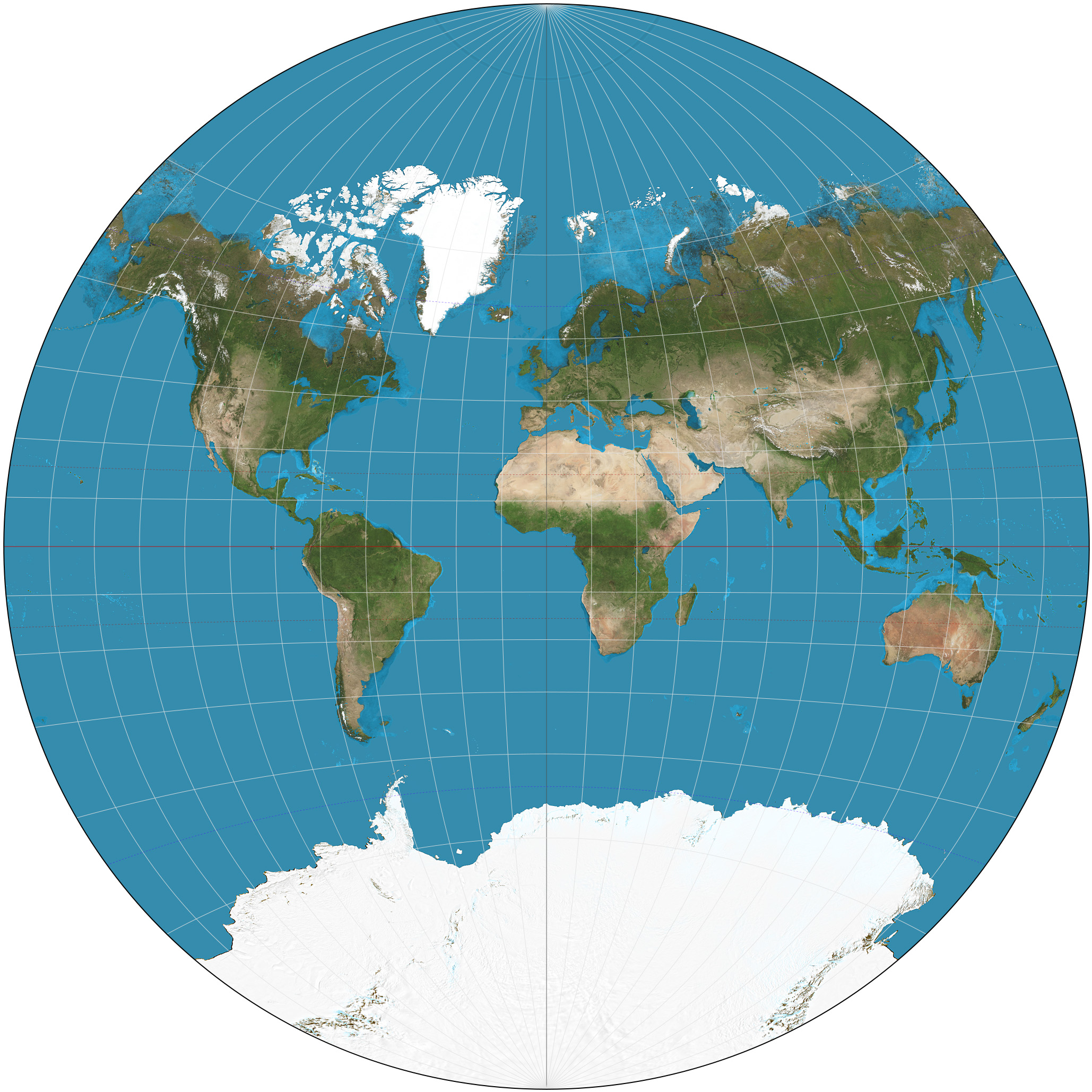 The world on Van der Grinten projection. 15° graticule. Imagery is a derivative of NASA’s Blue Marble summer month composite with oceans lightened to enhance legibility and contrast. Image created with the Geocart map projection software.